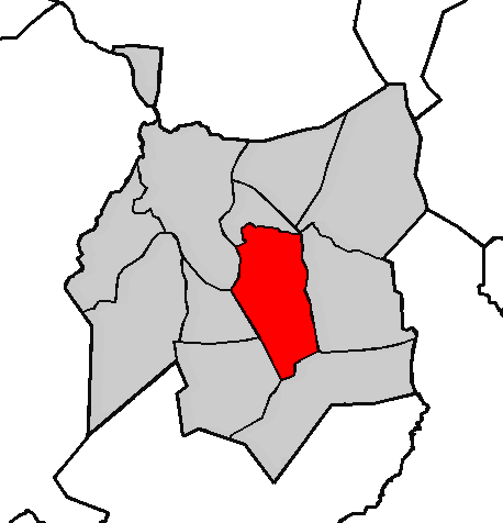 Location of the parish of Brexo in the municipality of Cambre (Galicia, Spain)